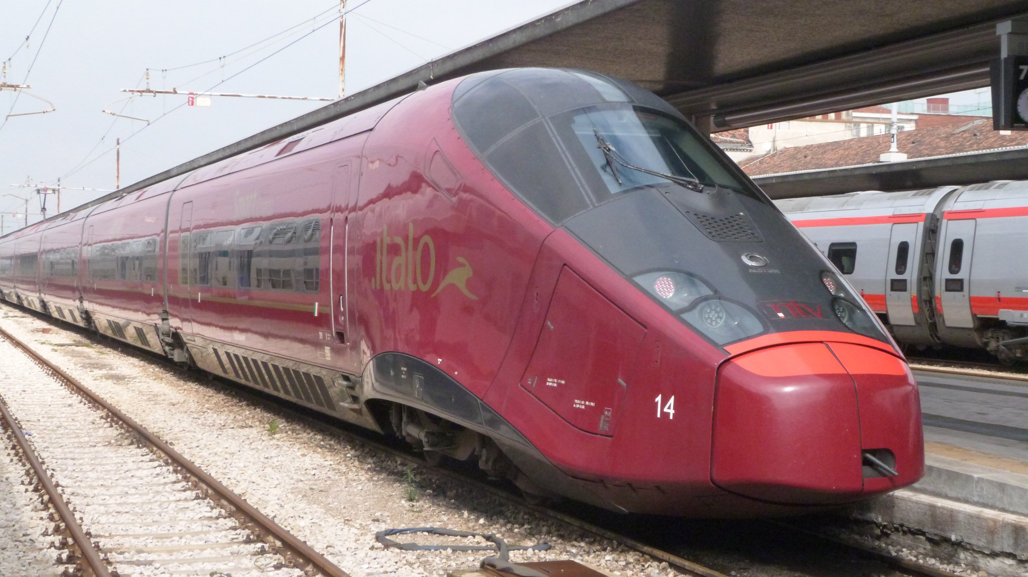 Nuovo Trasporto Viaggiatori (NTV) is an Italian company which is Europe's first private open access operator of 300 km/h high-speed trains. NTV was created by four Italian businessmen to compete with Trenitalia. An order for 25 Alstom Automotrice à grande vitesse (AGV) train-sets each with 11 cars was announced on 17 January 2008. No 575-174 waits to depart at Santa Lucia Station, Venice